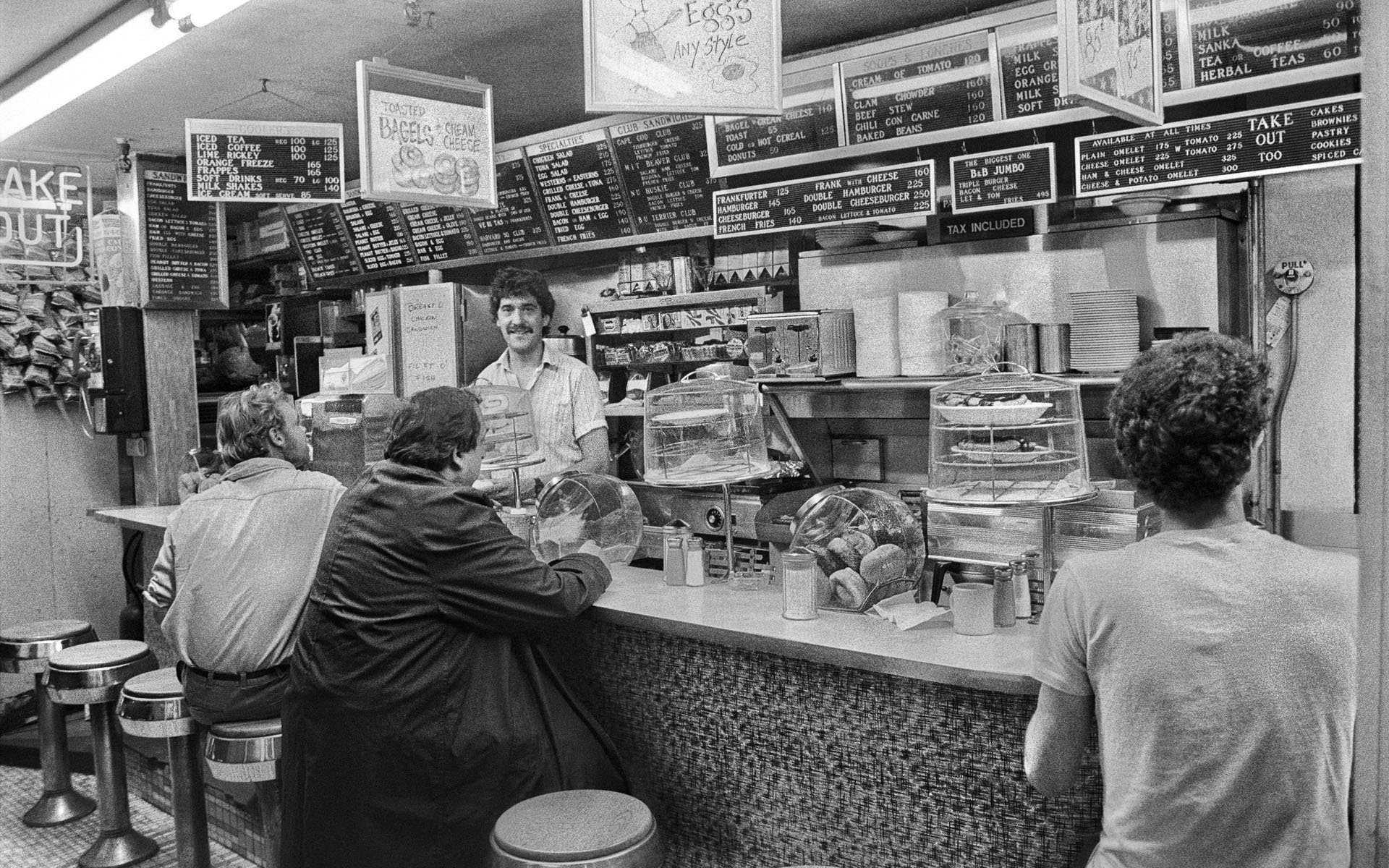 The Tasty Sandwich Shop, a diner restaurant in Cambridge, open 24 hours a day from 1916 to 1997 at 6 John F. Kennedy Street. Behind the counter is chef Don Valcovic, on the right is Al Nidle, publisher of Street Magazine in the late 1980s. The restaurant’s customers ranged from long-time residents, students from Harvard University, to bankers and businessmen, all mixing informally.